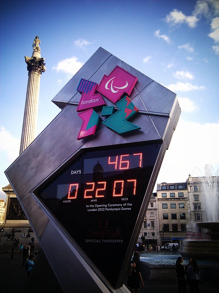 Taken with picplz at Trafalgar Square in Westminster.